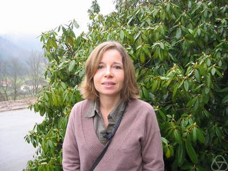 Annalisa Buffa, Oberwolfach 2007